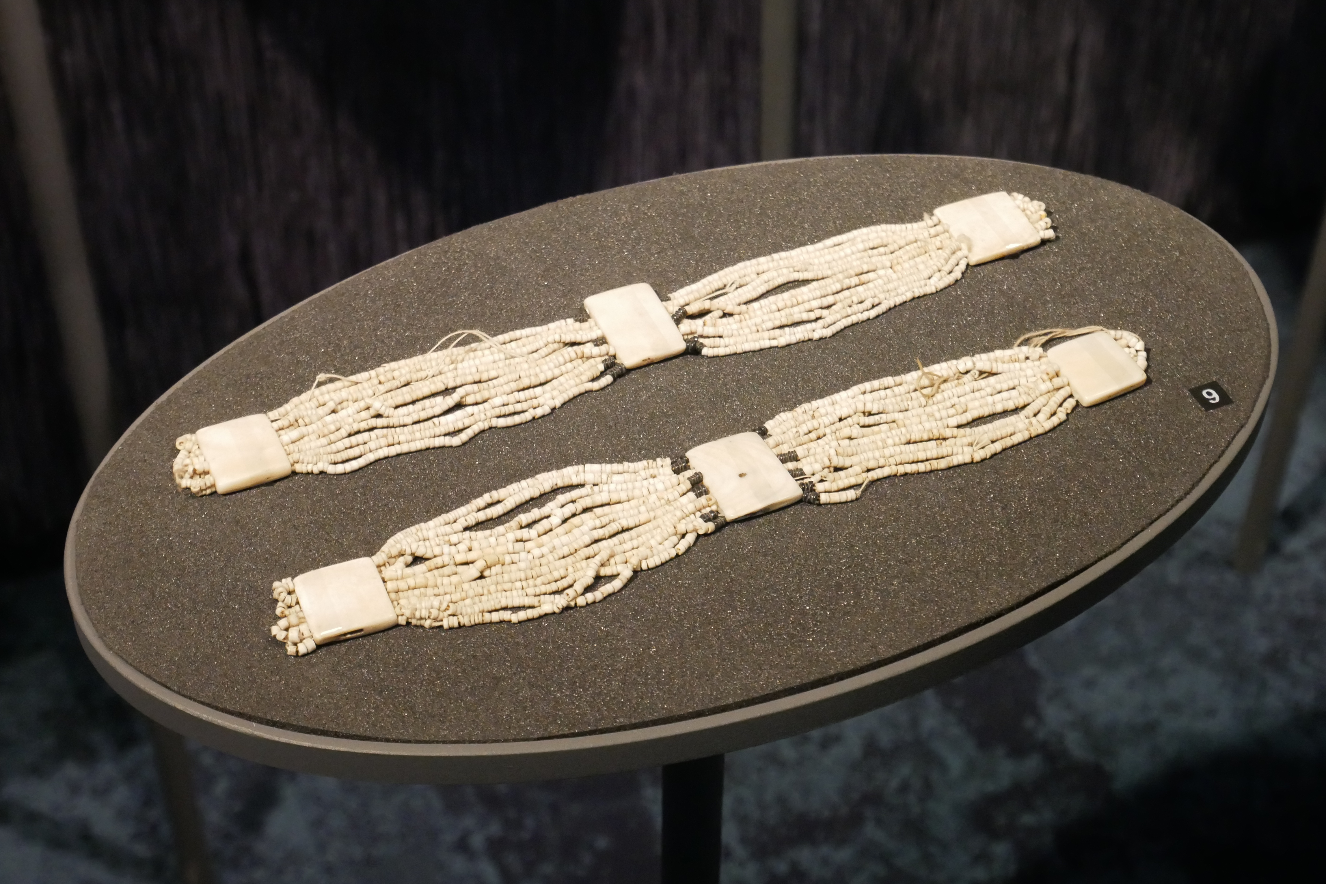 賽德克族馬赫坡社（臺中州能高郡蕃地マヘボ社）莫那·魯道所有的貝珠踝飾，臺北市中正區城內次分區黎明里